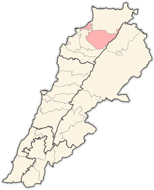 Map of districts in Lebanon, highlighting the Miniyeh-Danniyeh District